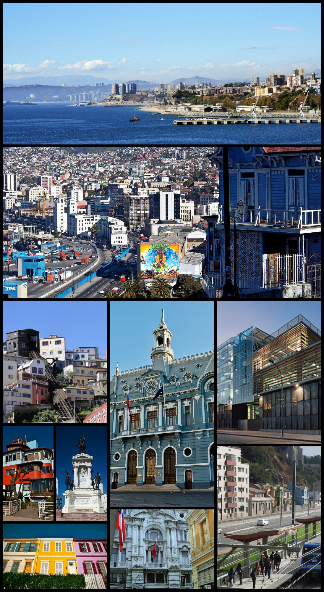 Montage of Valparaíso, Republic of Chile.